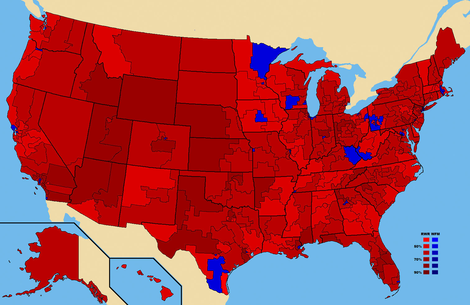 The 1984 Presidential Election, Results by Congressional District